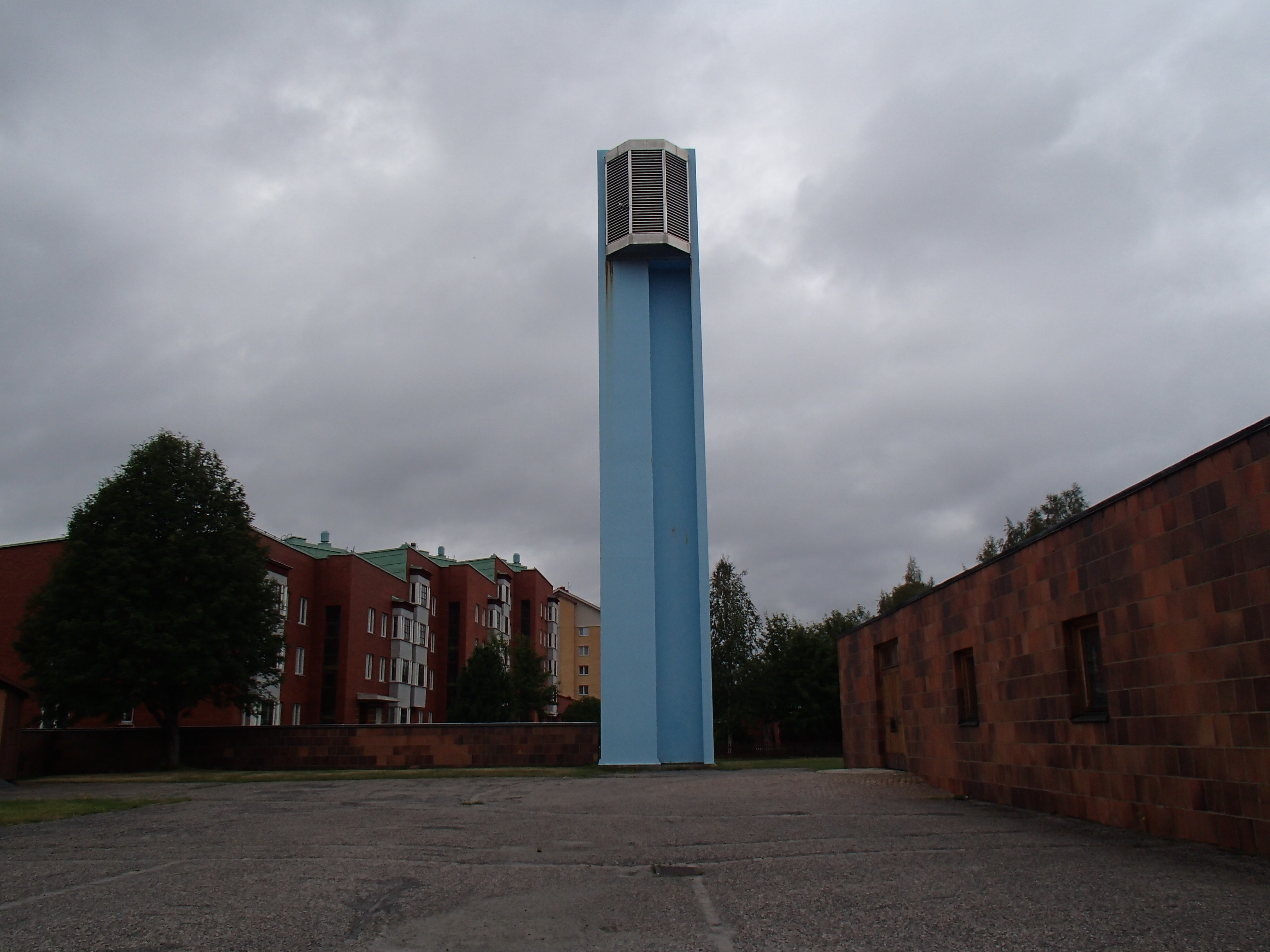 Mjölkuddskyrkans klockstapel